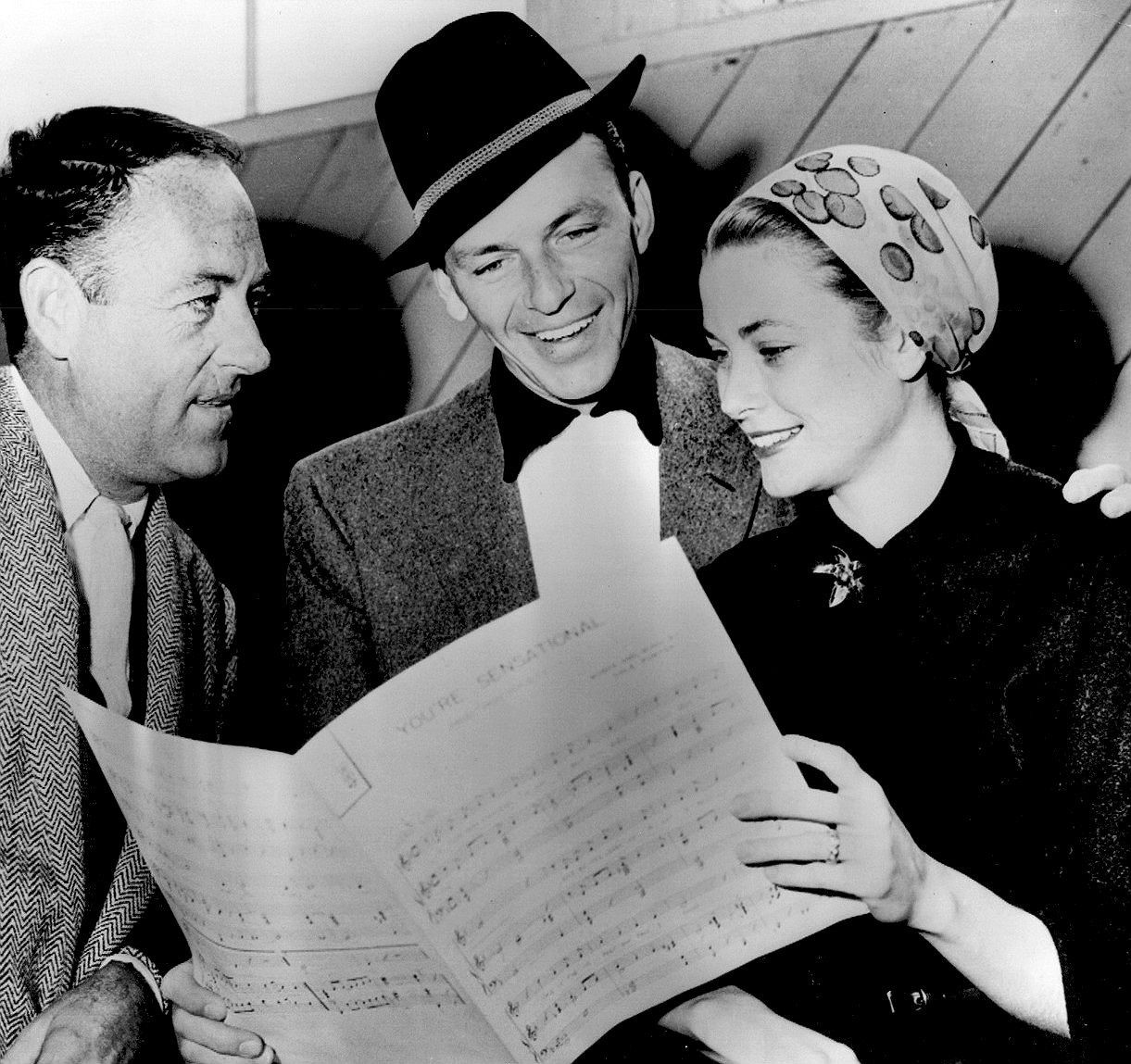 Photo of Frank Sinatra and Grace Kelly on the set of High Society going over a musical number with director Charles Walters. Note the uploaded photo is a larger, better quality copy of the newspaper photo. A renewal search was done at for the title Lubbock Evening Journal. There were no listings for the newspaper; there's no evidence of continuing copyright for the newspaper.